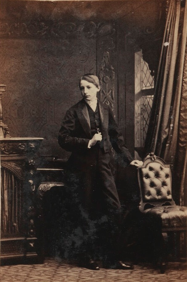 Ernest Hartley Coleridge